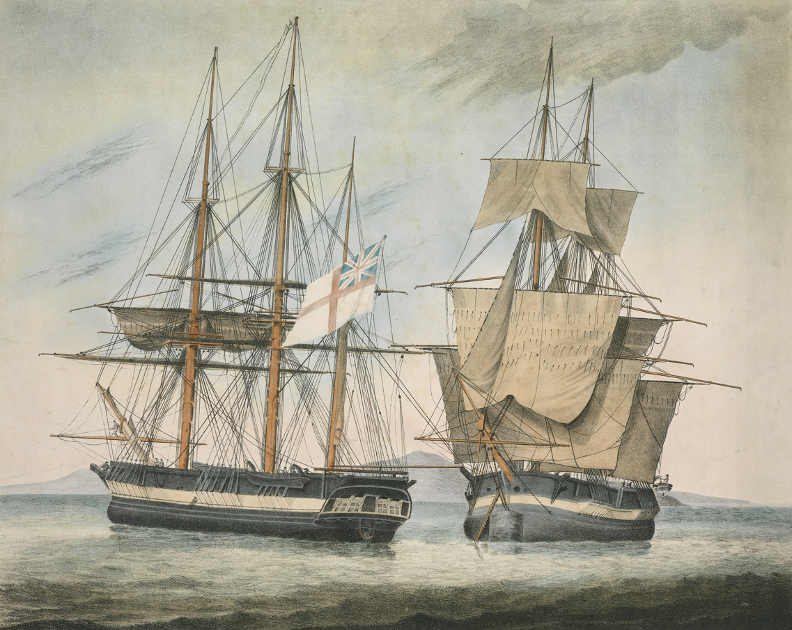 His Majesty's Discovery Ships Fury and Hecla Hand coloured lithograph depicting the Fury and Hecla, which took part in 1824 and 1825 in Parry's attempt to discover a N/W passage from the Atlantic to the Pacific. Inscribed: "His Majesty's Discovery Ships Fury [and] Hecla". The Fury is on the left, Hecla on the right. His Majesty's Discovery Ships Fury and Hecla